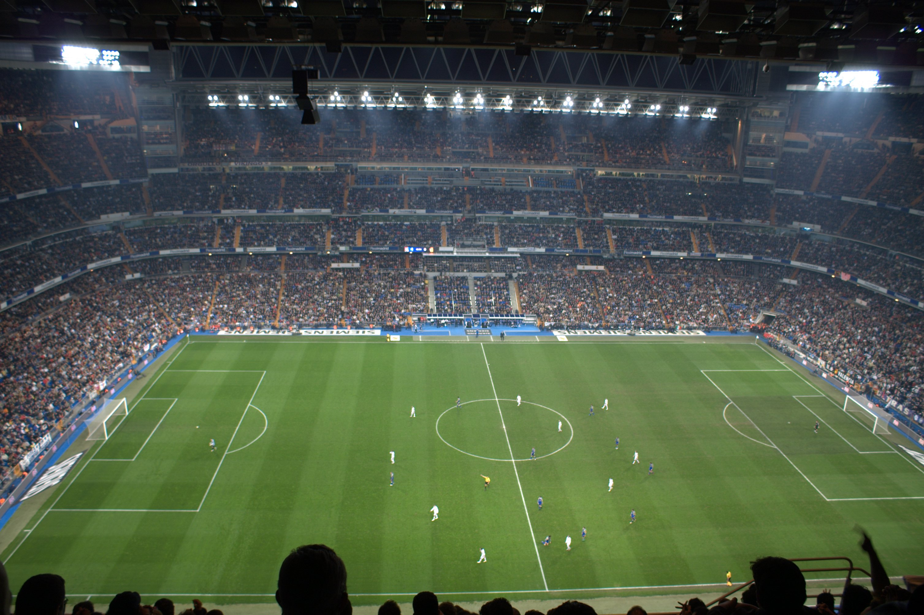 Santiago Bernabéu Stadium (Madrid, Spain).